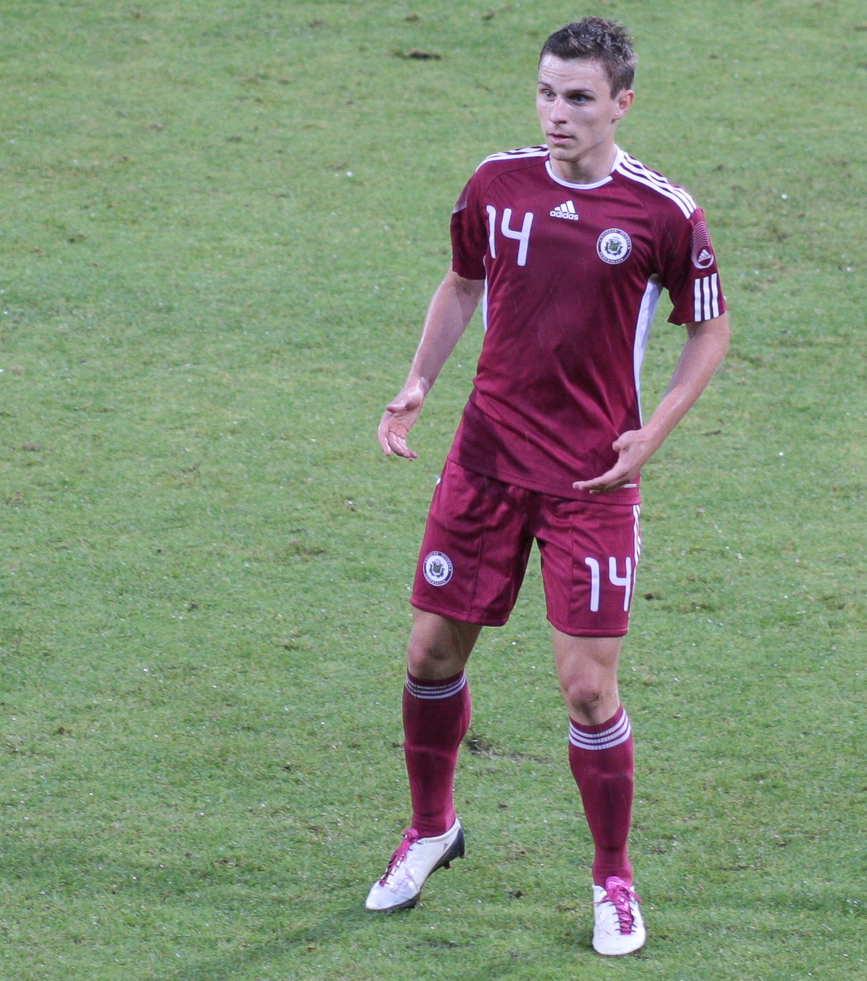 Andrejs Kovaļovs, Latvian football player